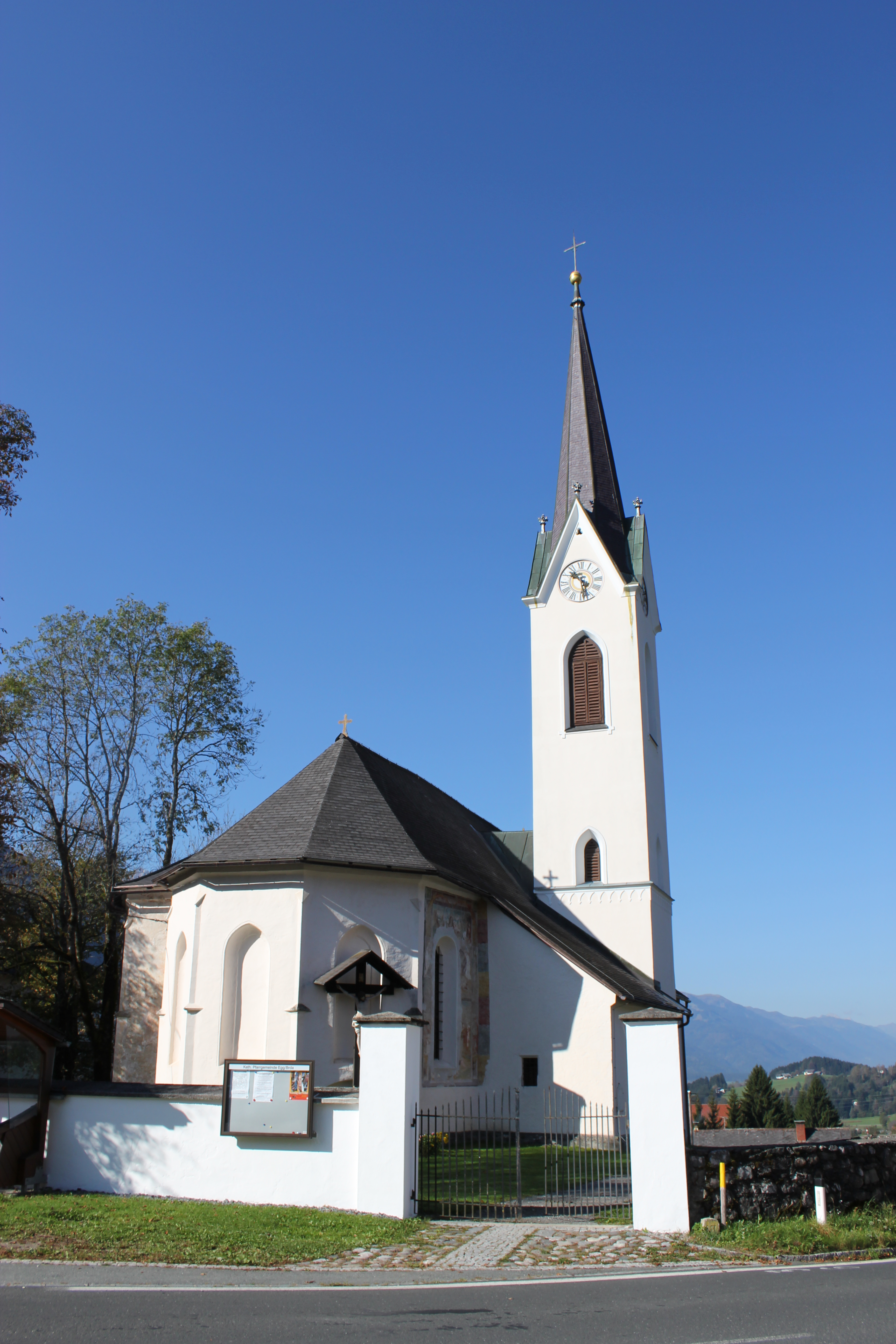 Church of Egg in the community of Hermagor